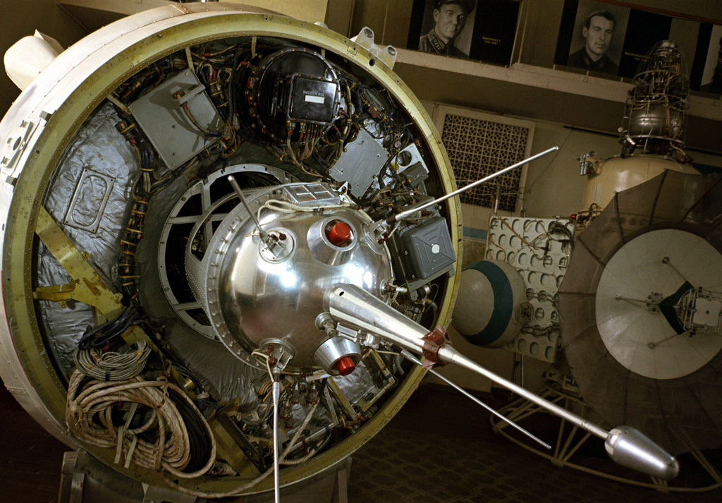 “Luna-1 automated space station”. The Luna-1 automated space station with the final stage of a launch vehicle.